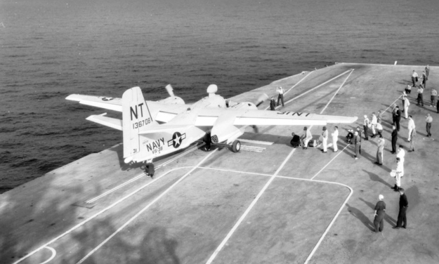 An S2E Tracker anti-submarine aircraft of 33 Patrol Squadron USN on the flight deck of the aircraft carrier HMAS Melbourne. At the time, the ship was involved in SEATO exercise Sea Devil held in the South China Sea. During the exercise, the Fleet Air Arm was conducting cross-operations with other aircraft capable of operating from HMAS Melbourne. The opportunity was taken to determine the suitability of this aircraft as a next generation replacement for the then current Gannet aircraft.